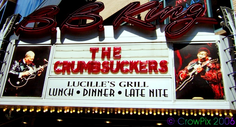 The Club mistakenly added "The" in their title whereas Crumbsuckers have never used this prefix (like 'The U2' or 'The Coldplay').